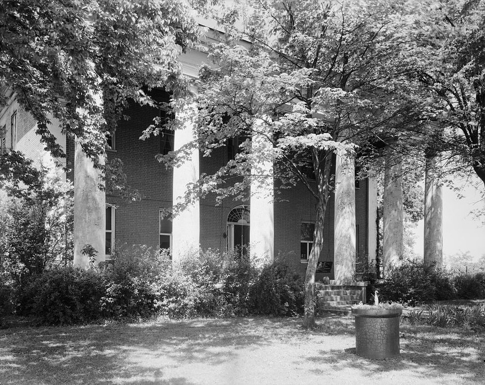 Belle Mina: Gov. Thomas Bibb House, Bella Mina, Limestone County, Alabama. From the Library of Congress' Carnegie Survey of the Architecture of the South.